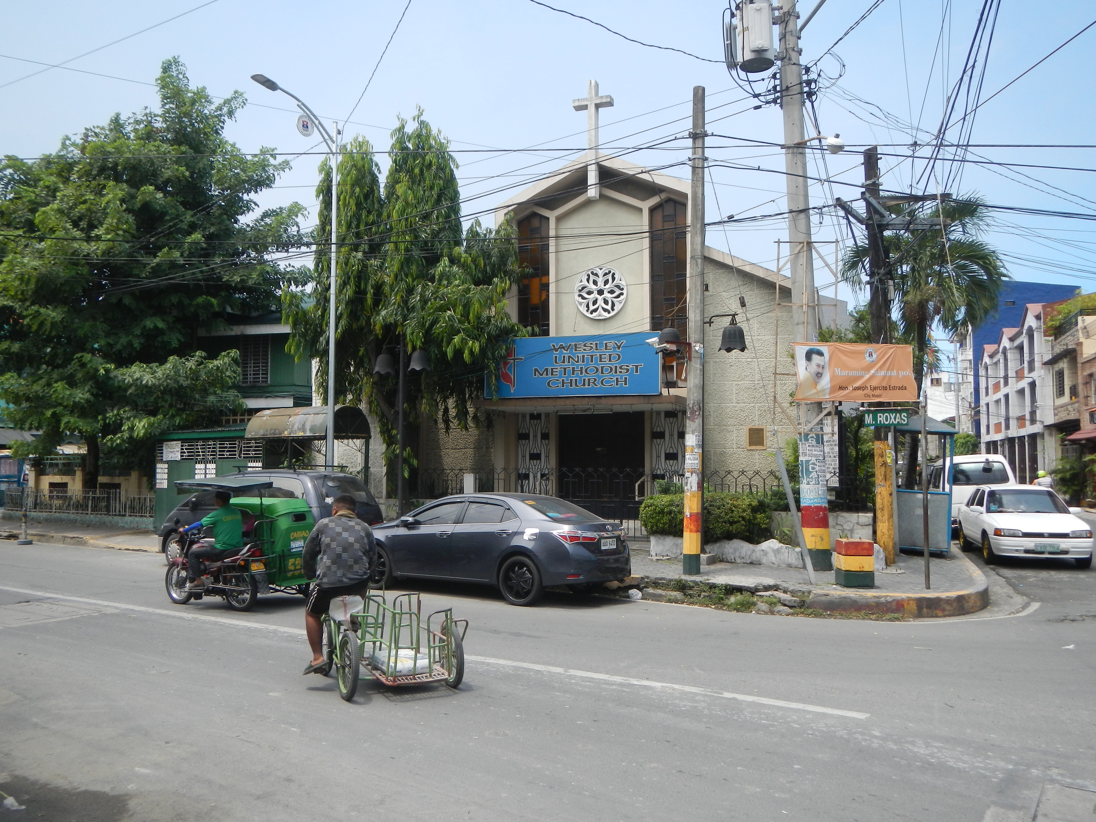 Metropolitan International Christian Academy (Syquia Street, Santa Ana, Manila) Metropolitan Bible Baptist Ekklesia (Syquia Street, Santa Ana, Manila) Grace and Truth Community Dr. Benny M. Abante, Senior Pastor Wesley United Methodist Church (Santa Ana, Manila) Historic houses in Santa Ana, Manila from Philippines–Thailand Friendship Circle, Philippines–Thailand relations List of Cultural Properties of the Philippines in Metro Manila located at junction of Jose Syquia Street Manuel A. Roxas Street Zamora Street and Revellin Street Santa Ana, Manila City of Manila (located in the List of barangays of Metro Manila Legislative districts of Manila Barangays 790, 791, 792, Zone 86, 869, Zone 95, 873, 874, 875, Zone 96, Distict VI and Barangays 869, Zone 95, 790, 791, 792, Zone 86, 873, 874, 875, Zone 96, Distict VI, Santa Ana, Manila City of Manila; Note: Judge Florentino Floro, the owner, to repeat, Donor Florentino Floro of all these photos hereby donate gratuitously, freely and unconditionally all these photos to and for Wikimedia Commons, exclusively, for public use of the public domain, and again without any condition whatsoever).